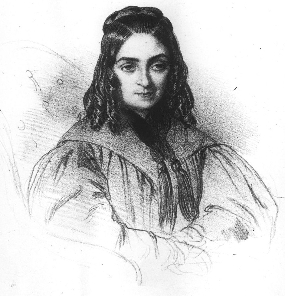 Flora Tristan (1803-1844), woman of letters, socialist and French feminist. Lithograph published by Aubert in 1838, published in Le Charivari n ° 53, February 22, 1839.